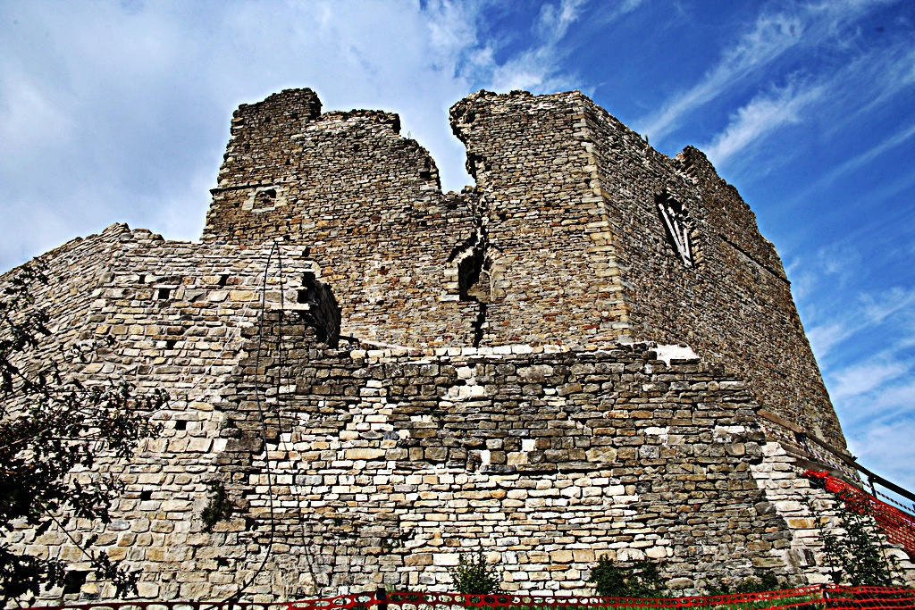 the fortress